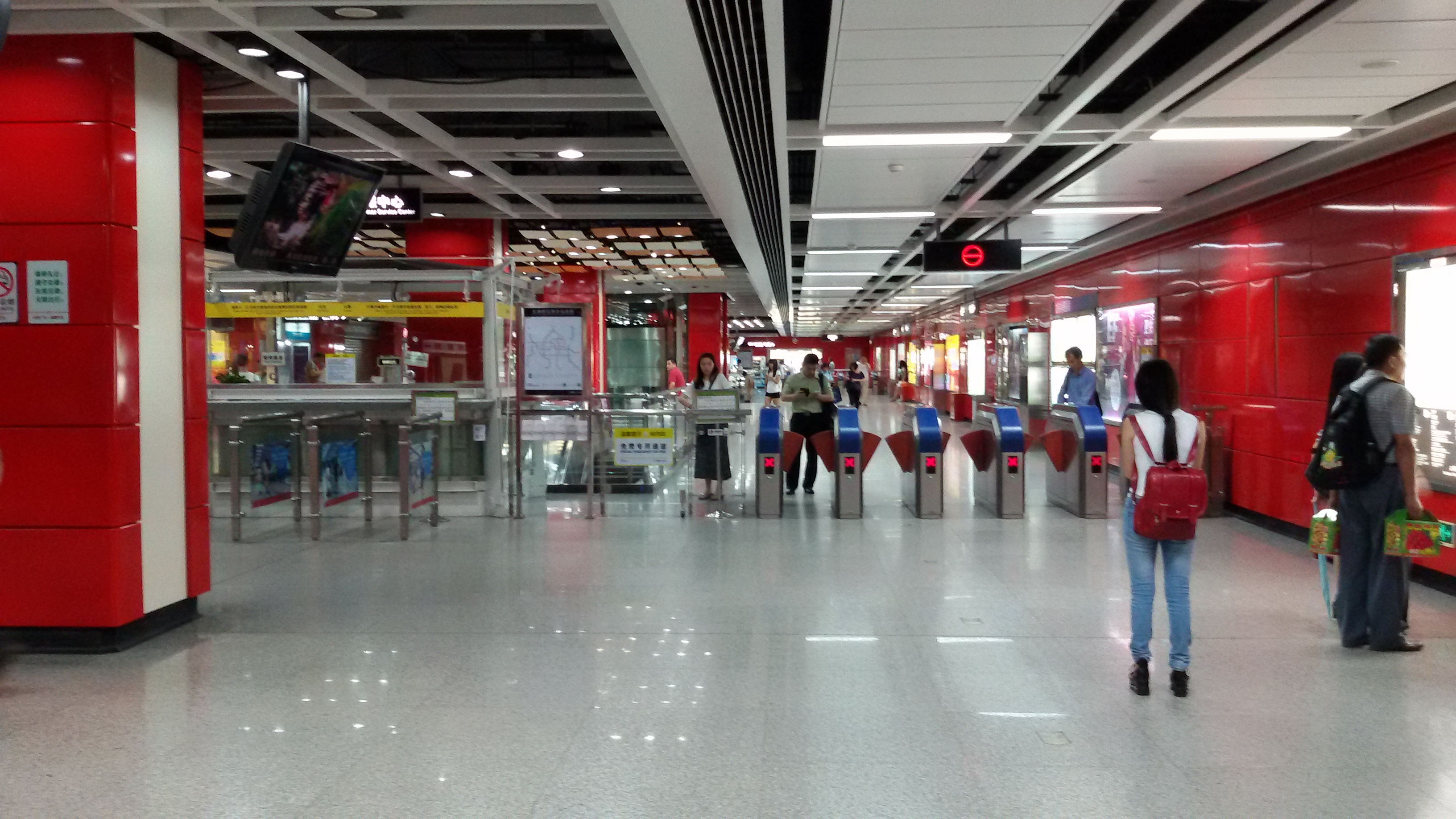 Hall in SHIPAIQIAO STATION